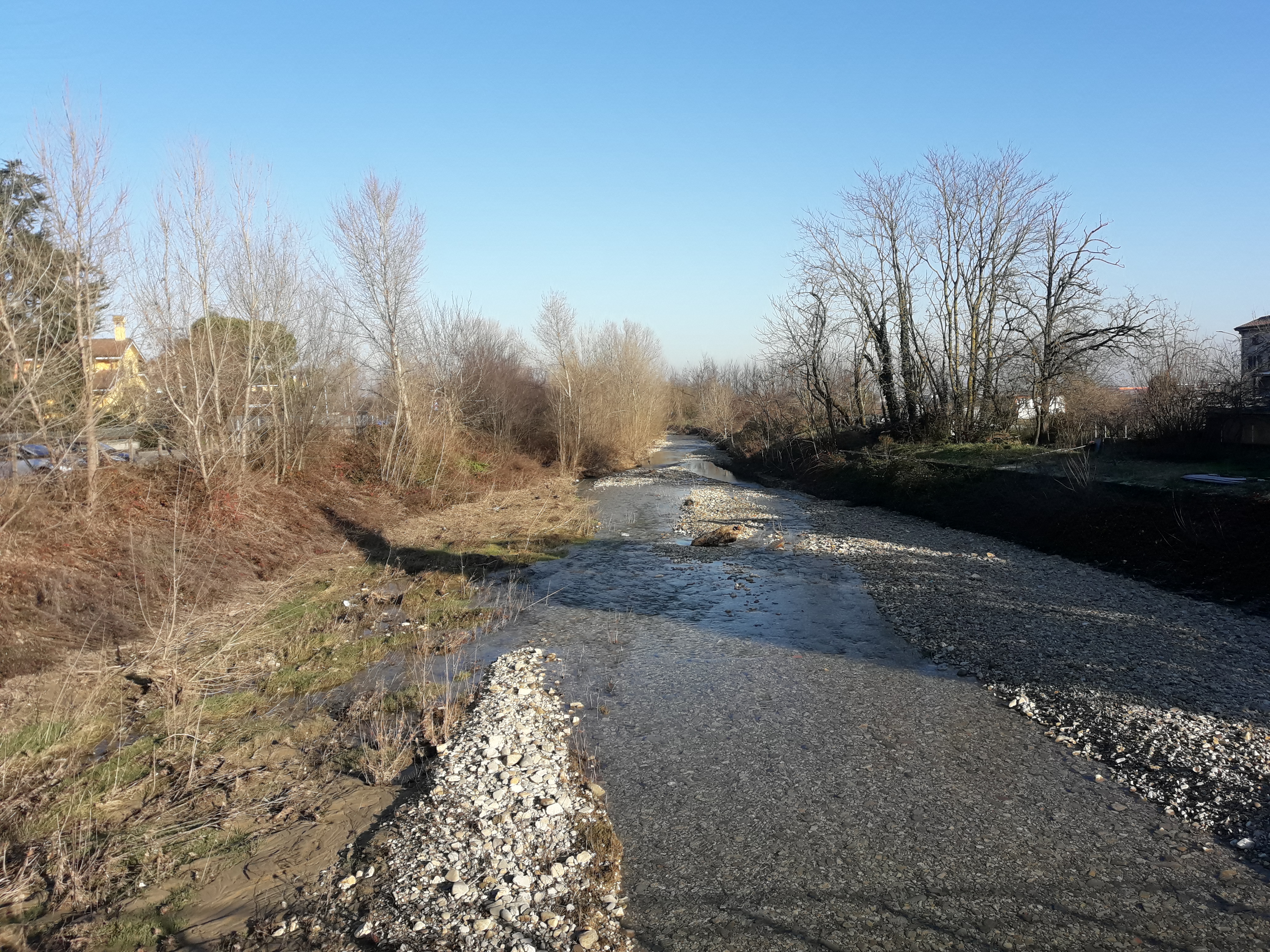 The river Riglio between Viustino and Case Riglio, on the border between the municipalities of San Giorgio Piacentino and Carpaneto Piacentino, Piacenza, Italy